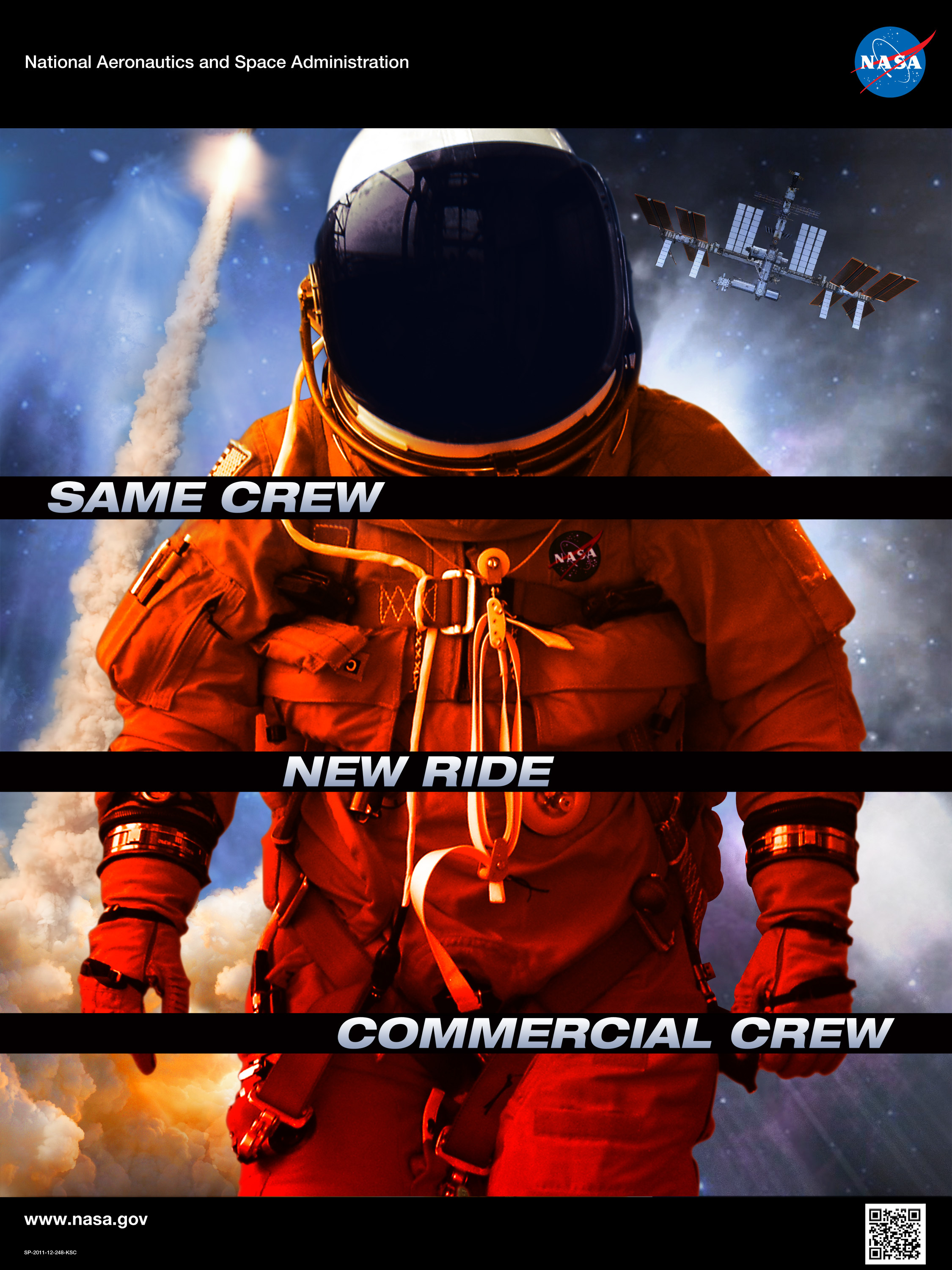 CAPE CANAVERAL, Fla. -- This is a printable version of NASA's "Same Crew, New Ride" poster depicting an artist's conception of NASA's Commercial Crew Program CCP. The poster features a NASA astronaut in the foreground with a vehicle launching toward the International Space Station in the background. CCP is investing in the aerospace industry and helping multiple companies design and develop crew transportation systems that could be capable of flying to the space station and other low Earth orbit destinations. The program is meant to accelerate a United States-led capability to the station where critical scientific work is being performed for use in applications here on Earth. CCP is expected to drive down the cost of space travel as well as open up space to more people than ever before by balancing industry’s own innovative capabilities with NASA's 50 years of human spaceflight experience. For more information, visit Poster designed by Kennedy Space Center Graphics Department/Greg Lee. Credit: NASA